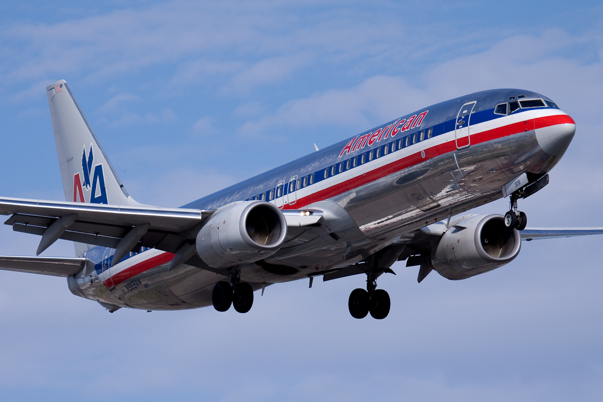 American Airlines Boeing 737-800 landing at Montréal-Pierre Elliott Trudeau International Airport (YUL) in August 2009.